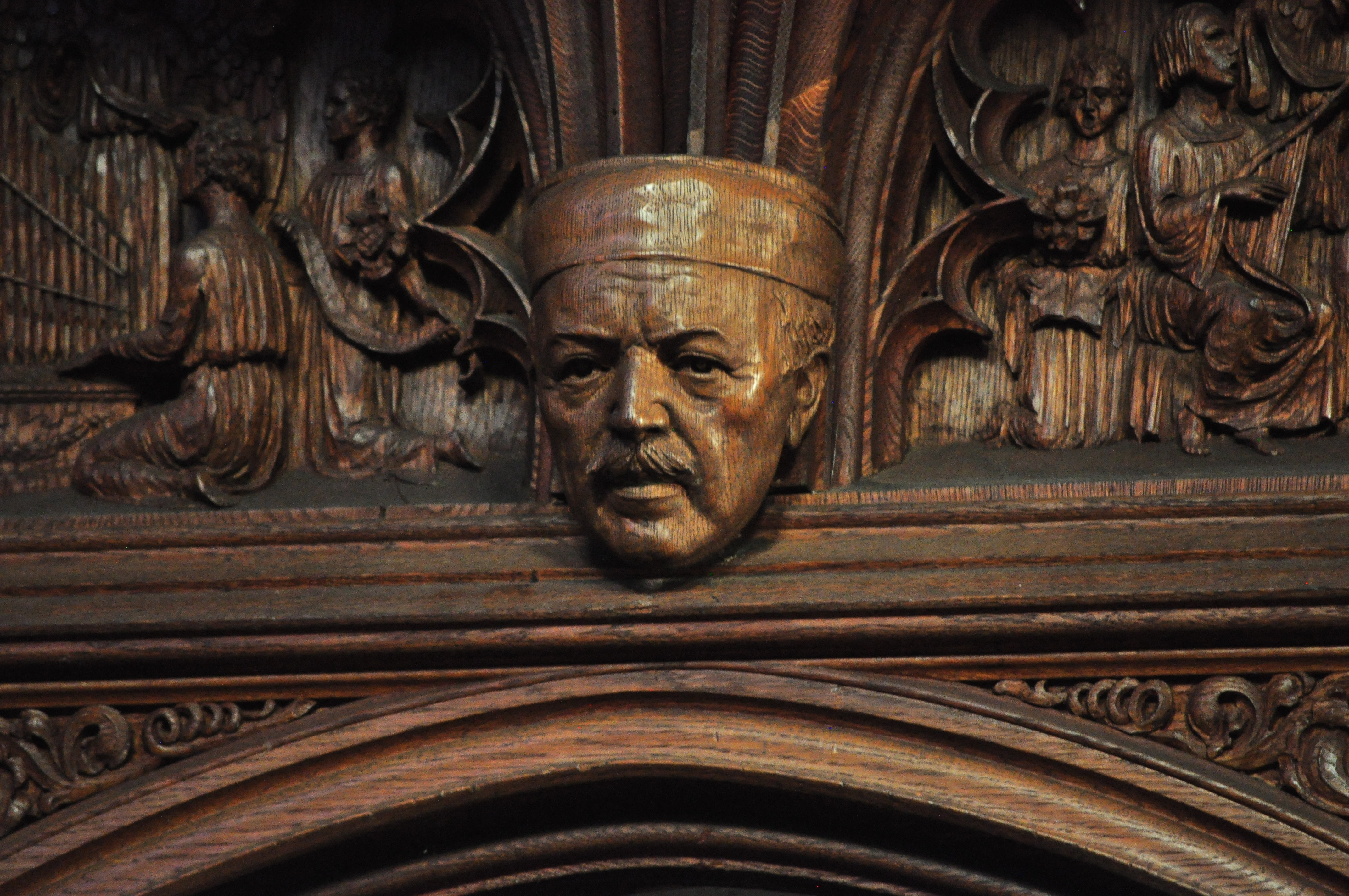 St. Michael's Church (Episcopal), 25 South Street (Connecticut Route 63), Litchfield, Connecticut. Woodcarving by Frank Walter. The carved head is Henry R. Towne, in whose memory the church was built.